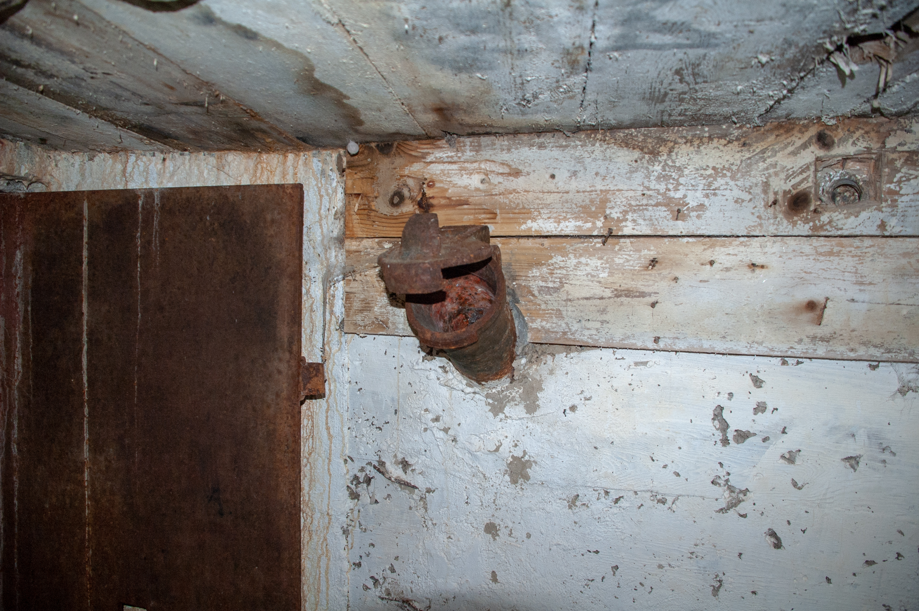 This image was created as a part of Editaton Prachatice (Czech).